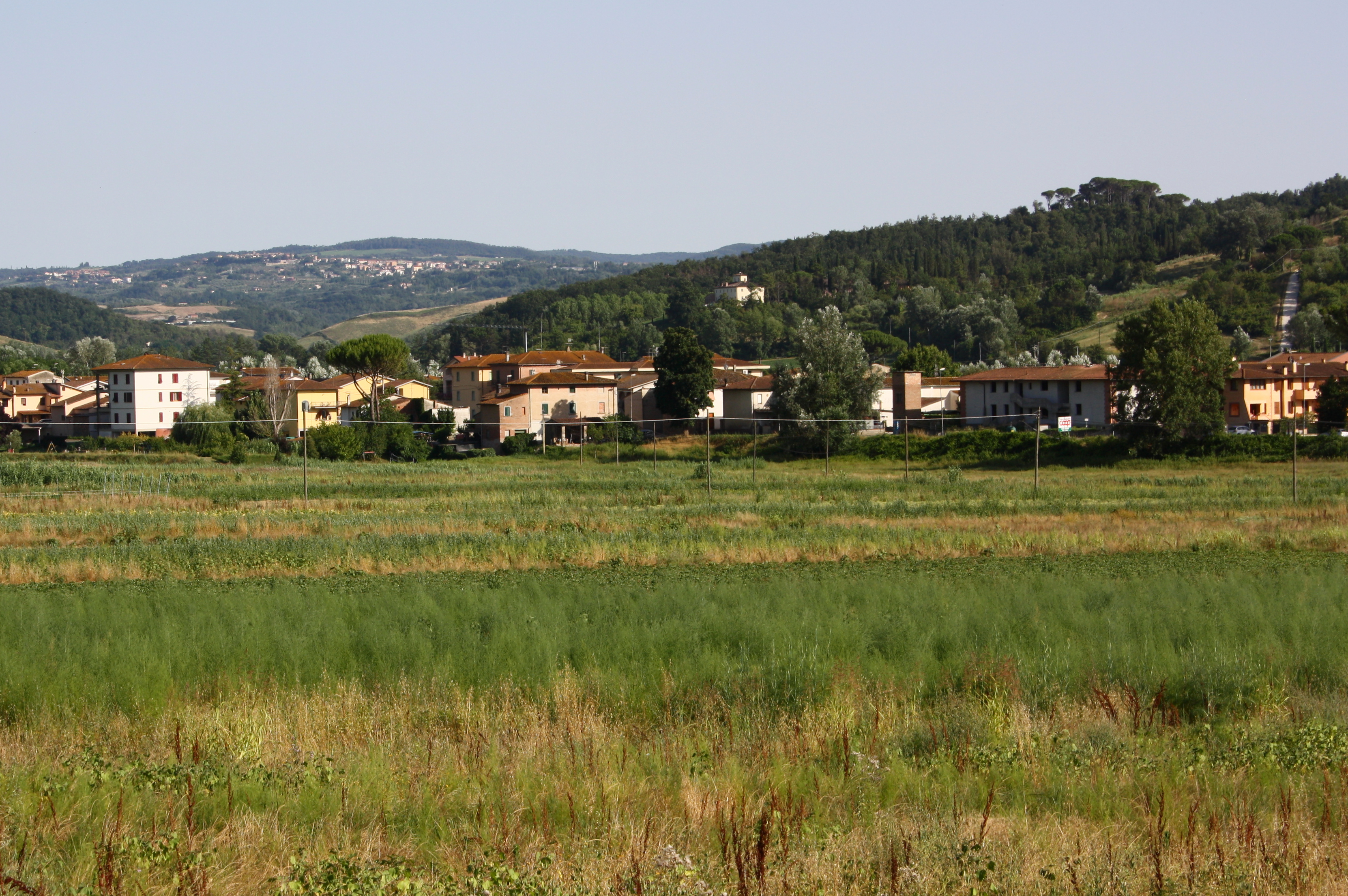 Corazzano, hamlet of San Miniato, Province of Pisa, Tuscany, Italy